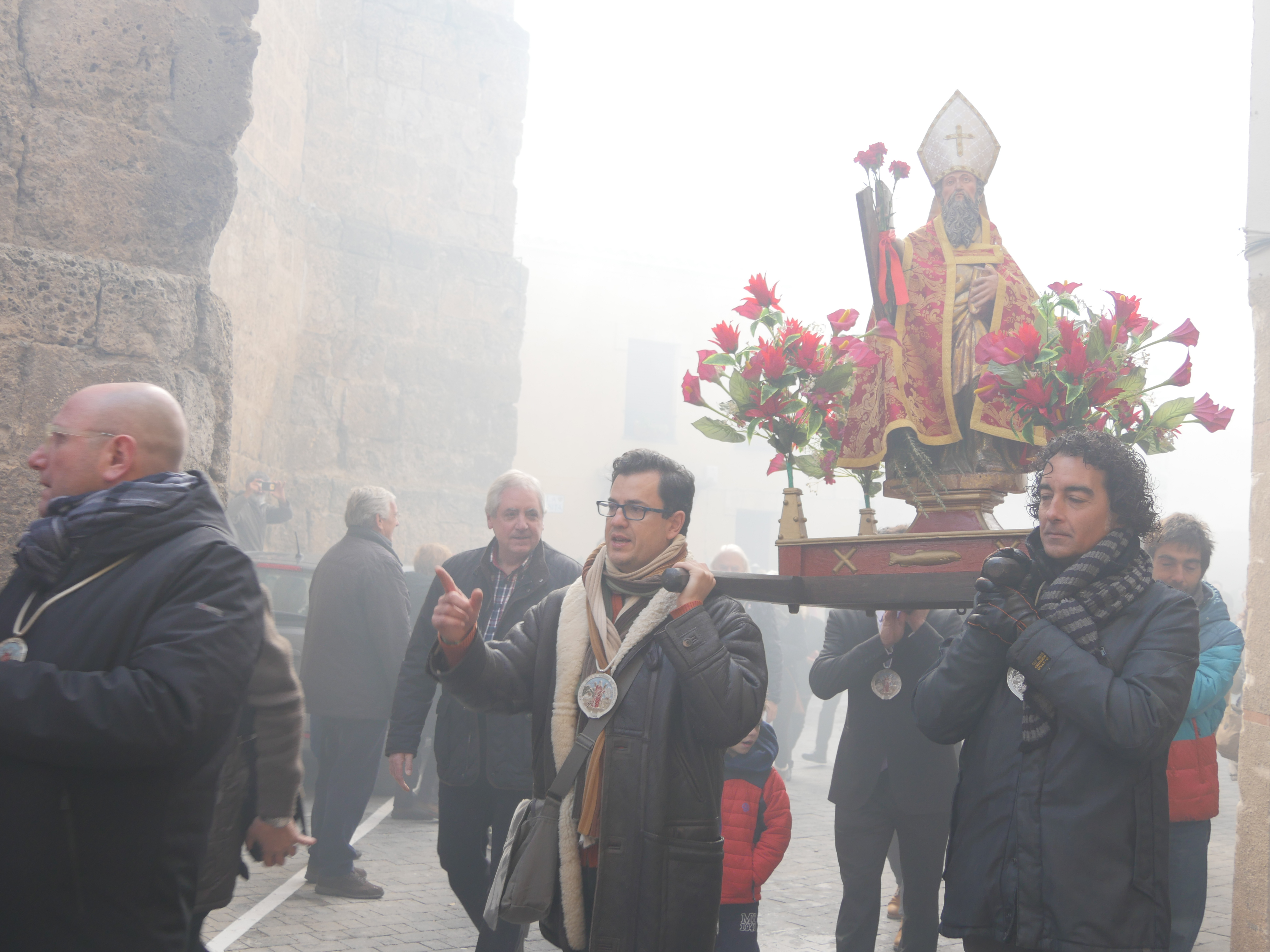 Paso with the sculpture of Saint Andrew getting out of the smoke at the end of the Procession of the smoke (Procesion del humo) 2017 in Arnedillo, La Rioja, Spain.